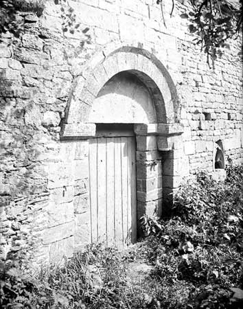 Norman Chapel House main entrance in Broad Campden. Photo by Henry Taunt dated 1895. This was modified by CR Ashbee for Ananda Coomarasarmy c. 1905